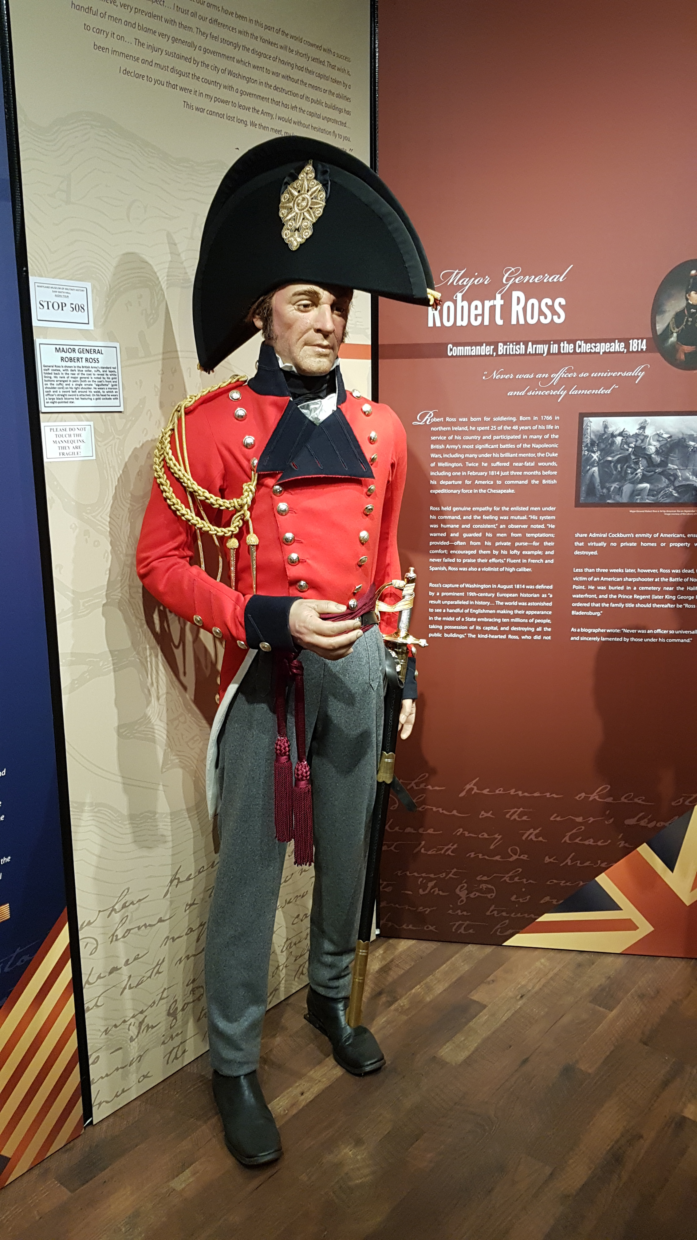 A figure of Major General Robert Ross as he appeared in the Baltimore campaign, in the War of 1812 gallery in the Maryland Museum of Military History, which is housed at the Fifth Regiment Armory in Baltimore, MD.